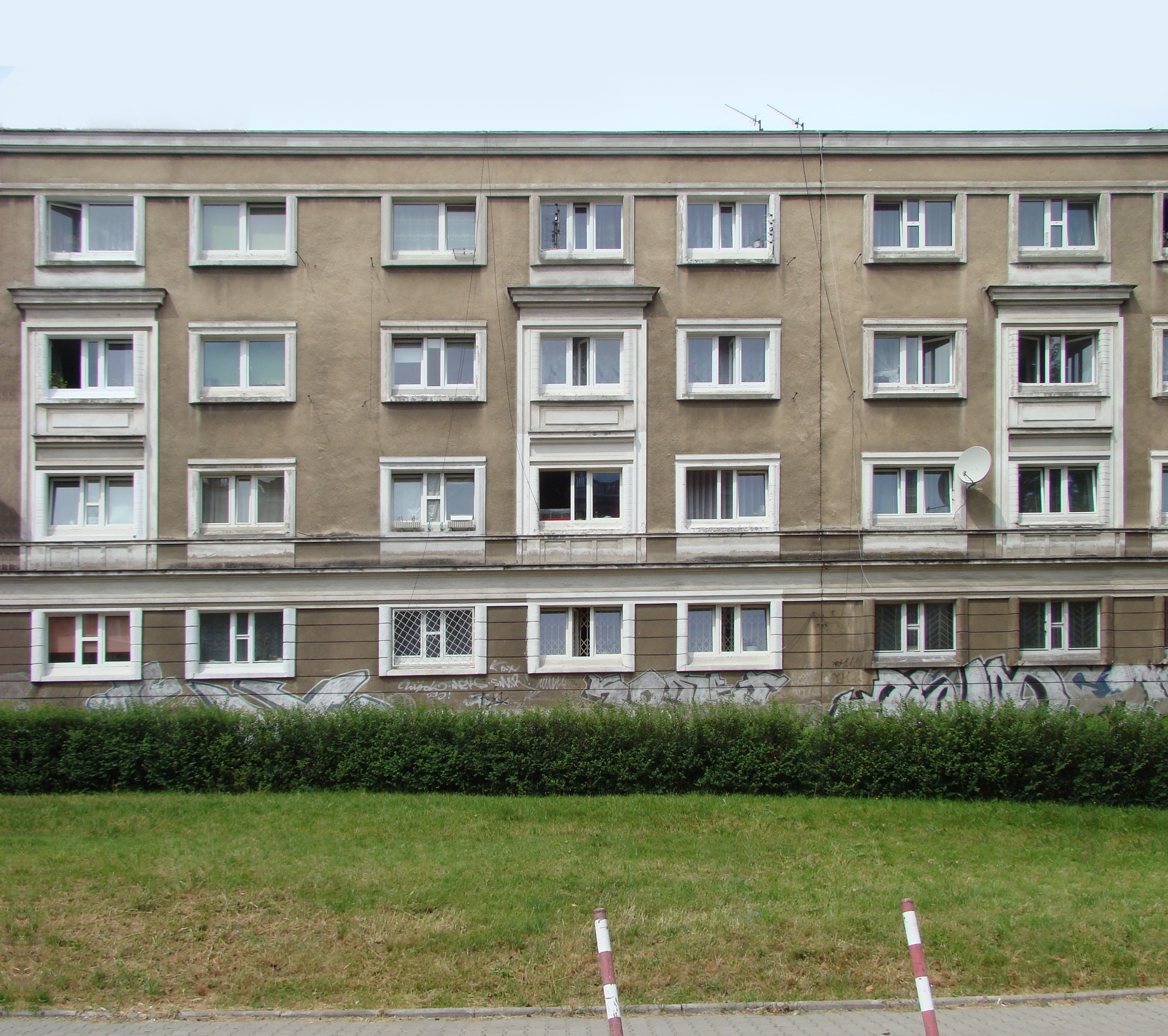 Muranów residential area, Warsaw, built 1948